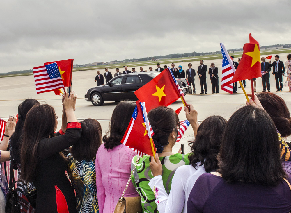 A crowd of roughly 120 people, mostly Vietnamese-Americans waving flags of both countries, and some dressed in traditional Vietnamese attire, attend the arrival of Nguyen Phu Trong, general secretary of Vietnam's Communist Party, at Joint Base Andrews, Md., July 6, 2015. Trong is scheduled to meet with President Obama July 7, which will be the first visit at the White House since the two countries normalized relations about 20 years ago. (U.S. Air Force photo by Senior Master Sgt. Kevin Wallace/RELEASED)